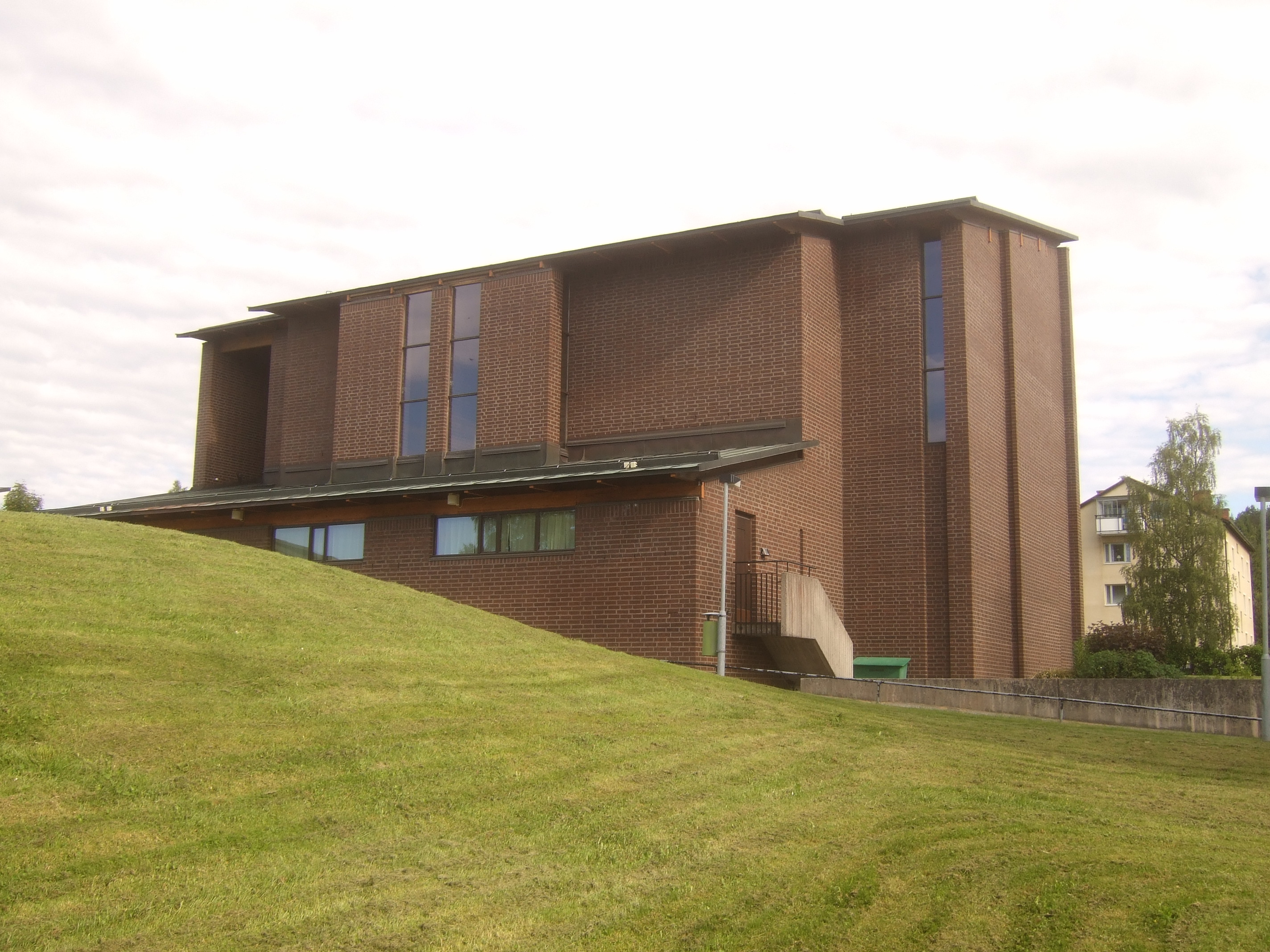 The church building of "Birgittakyrkan" at Hellbergsgatan 11 in Sundsvall, viewed from south (lawn)